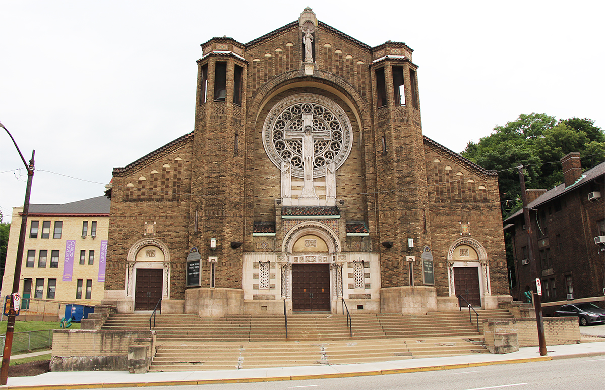 Carlow University St Agnes main entrance